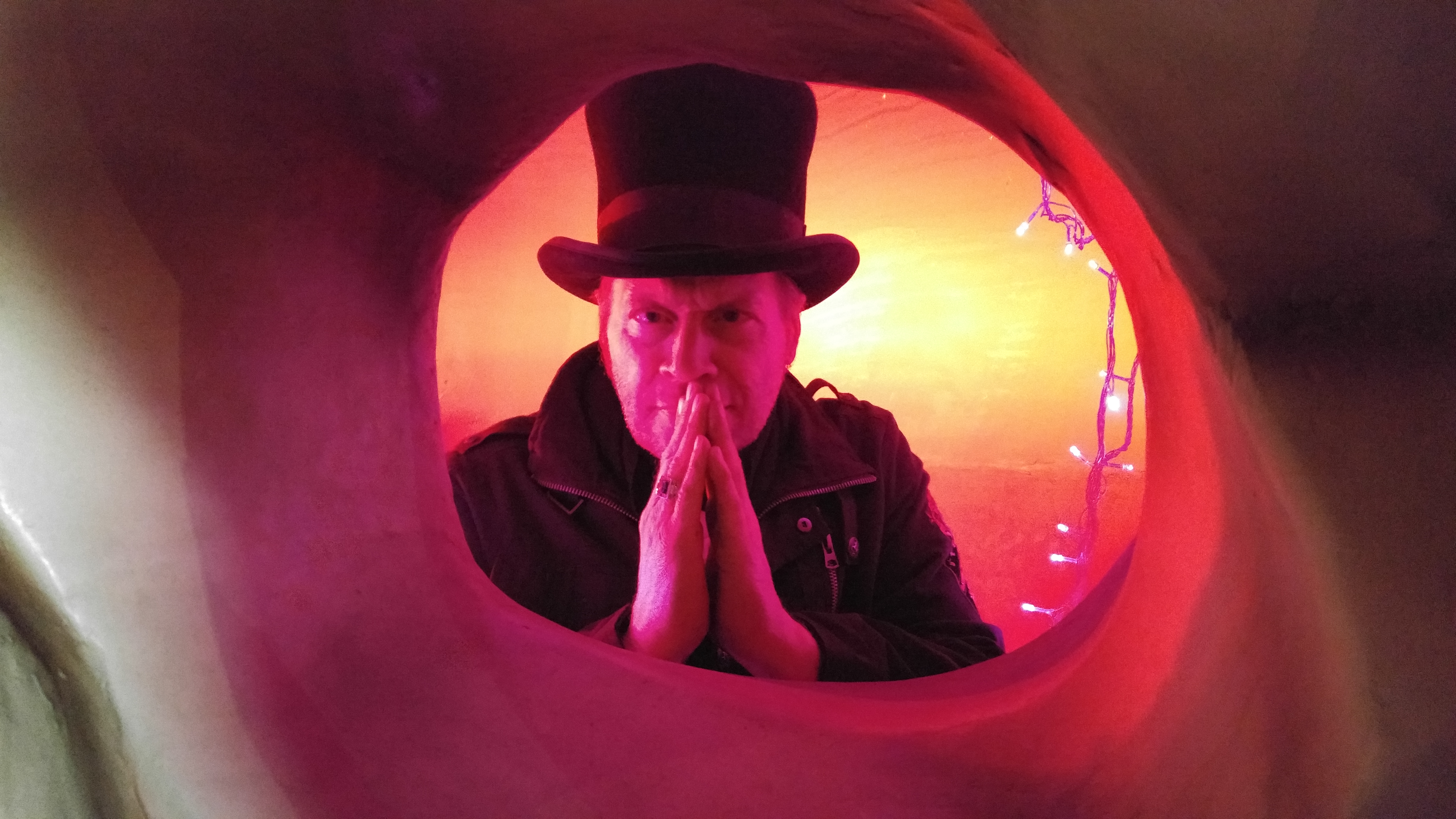 Actor, screenwriter and nightclub owner Carl Crew, photographed at the California Institute of Abnormal Arts..